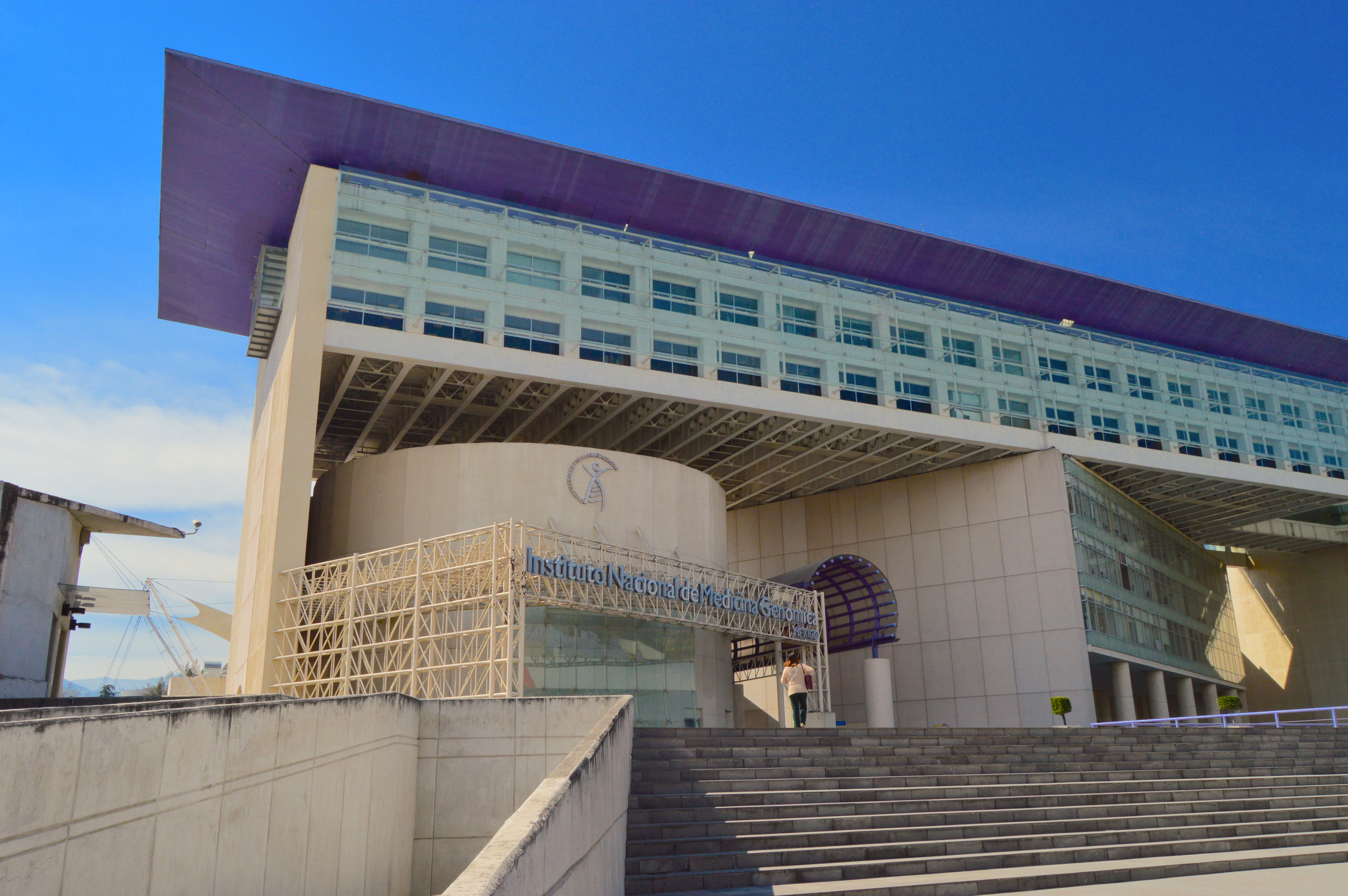 Inmegen.